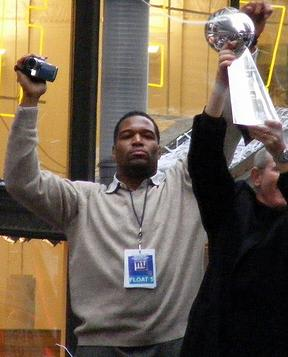 Manhattan - New York Giants defensive end Michael Strahan & coach Tom Coughlin at the Giants parade in Manhattan the Tuesday following the Giants victory in Super Bowl XLII.